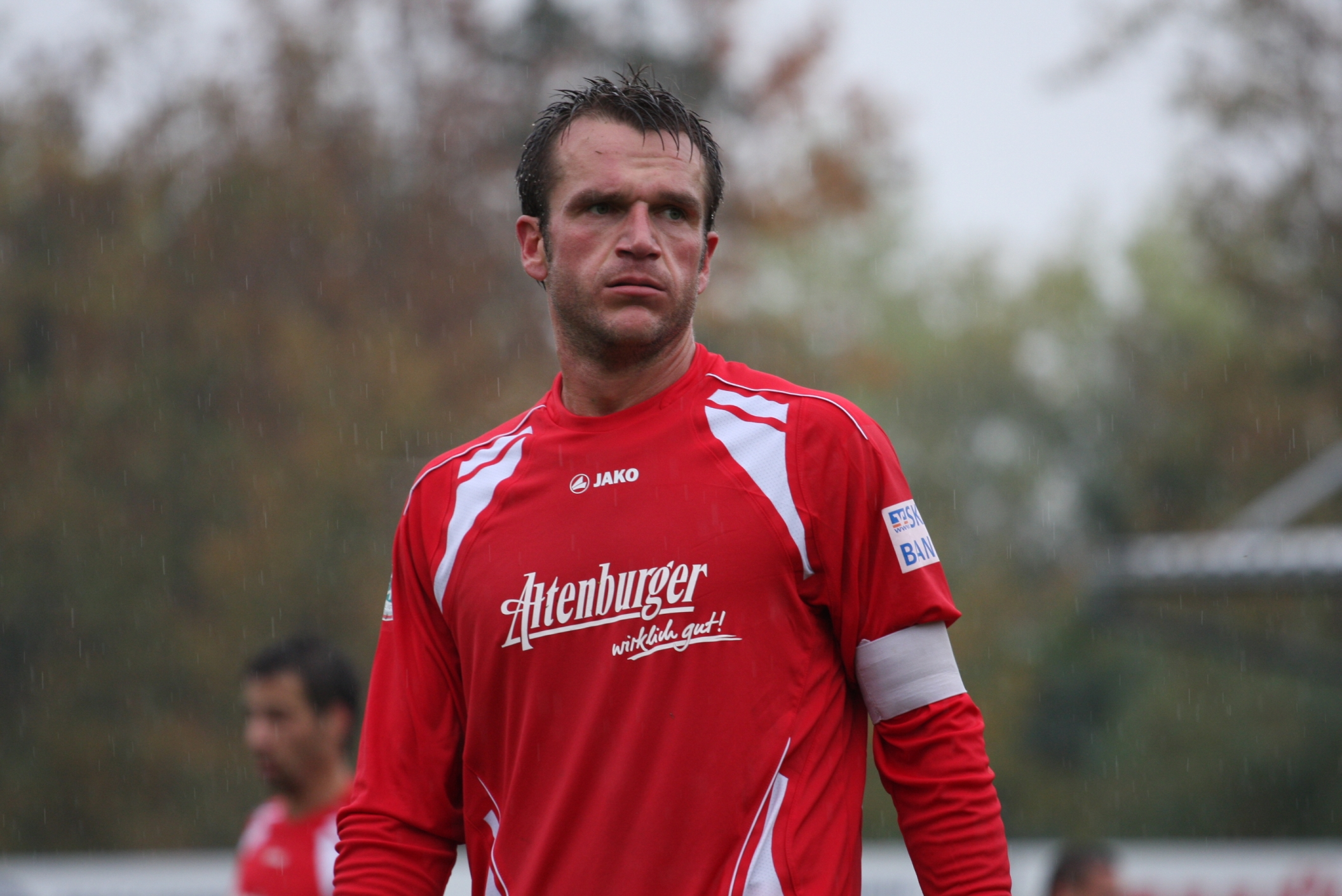 Karsten Oswald, German football player